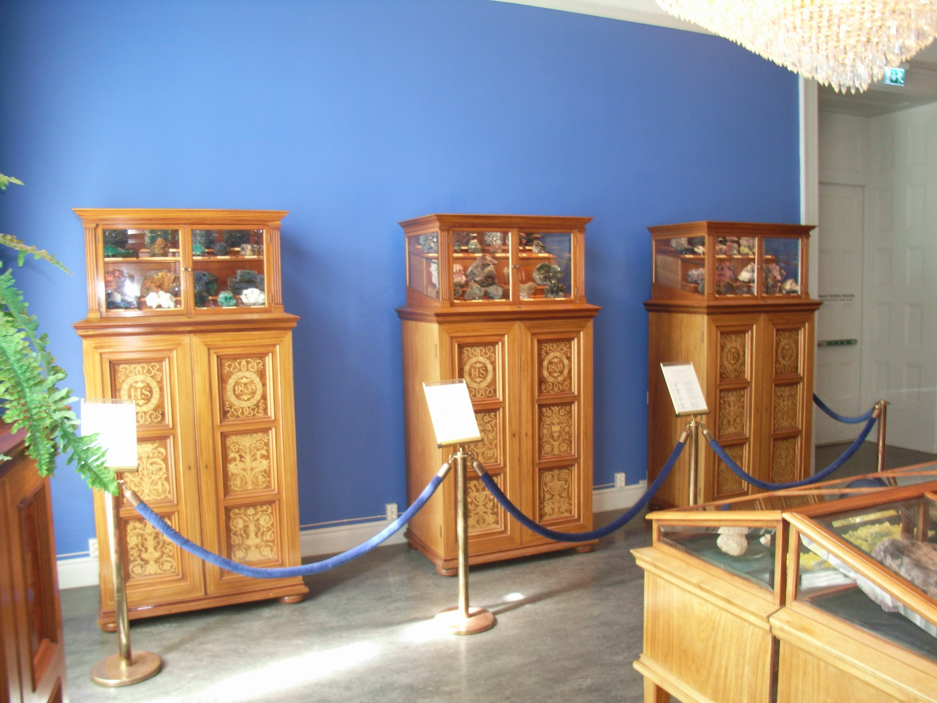 Hjalmar Sjögren Mineral Collection